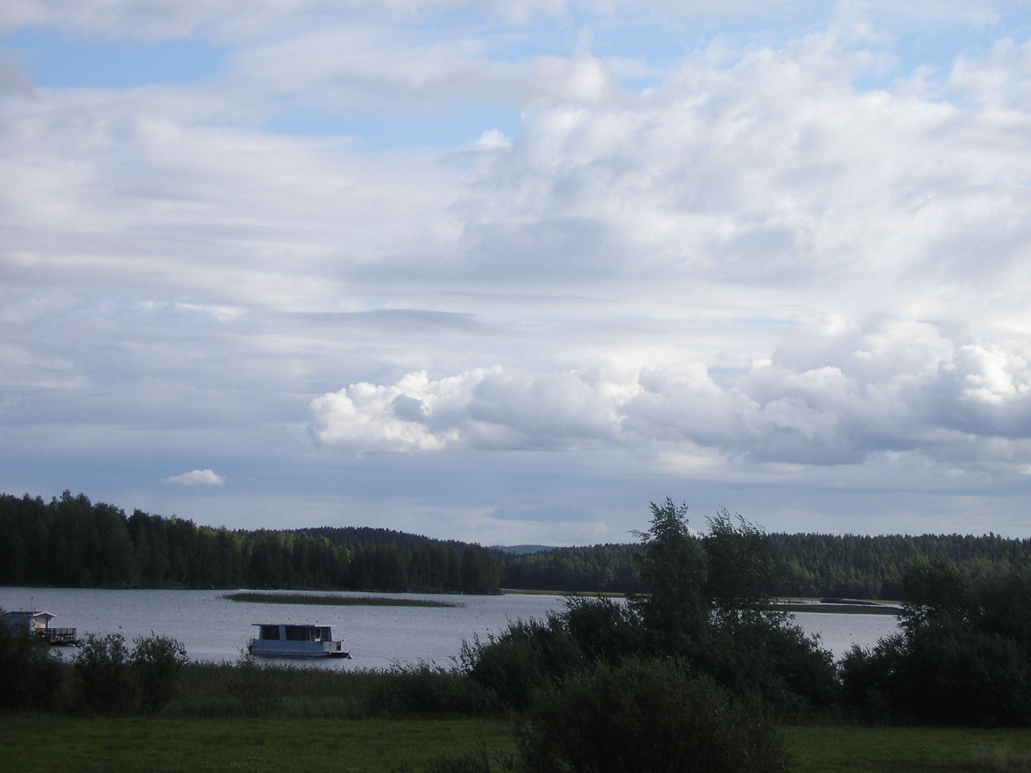 Keljonlahti bay in Päijänne, Jyväskylä